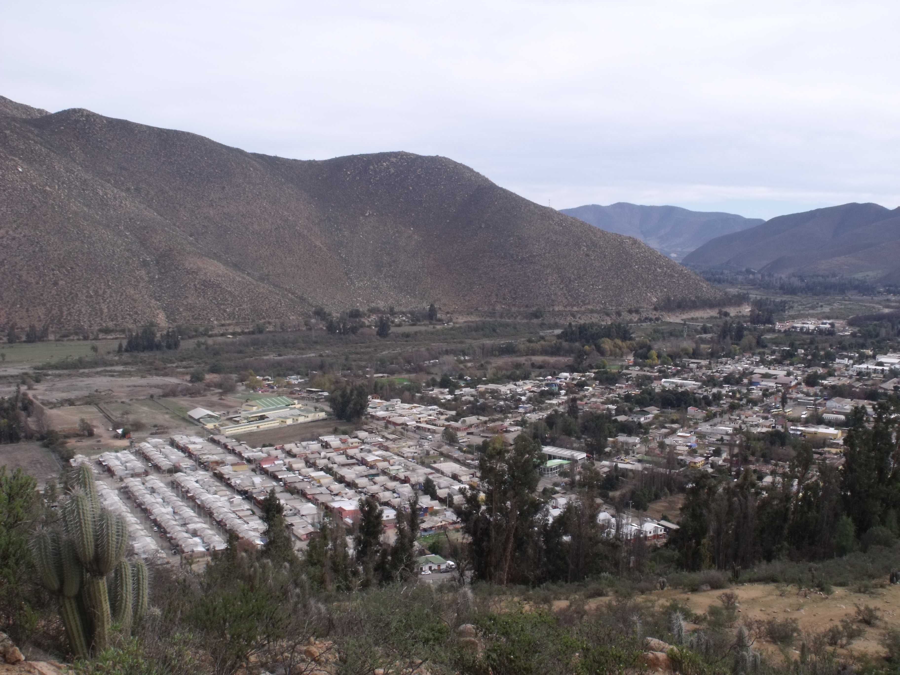 The city of Salamanca, Coquimbo Region, Chile